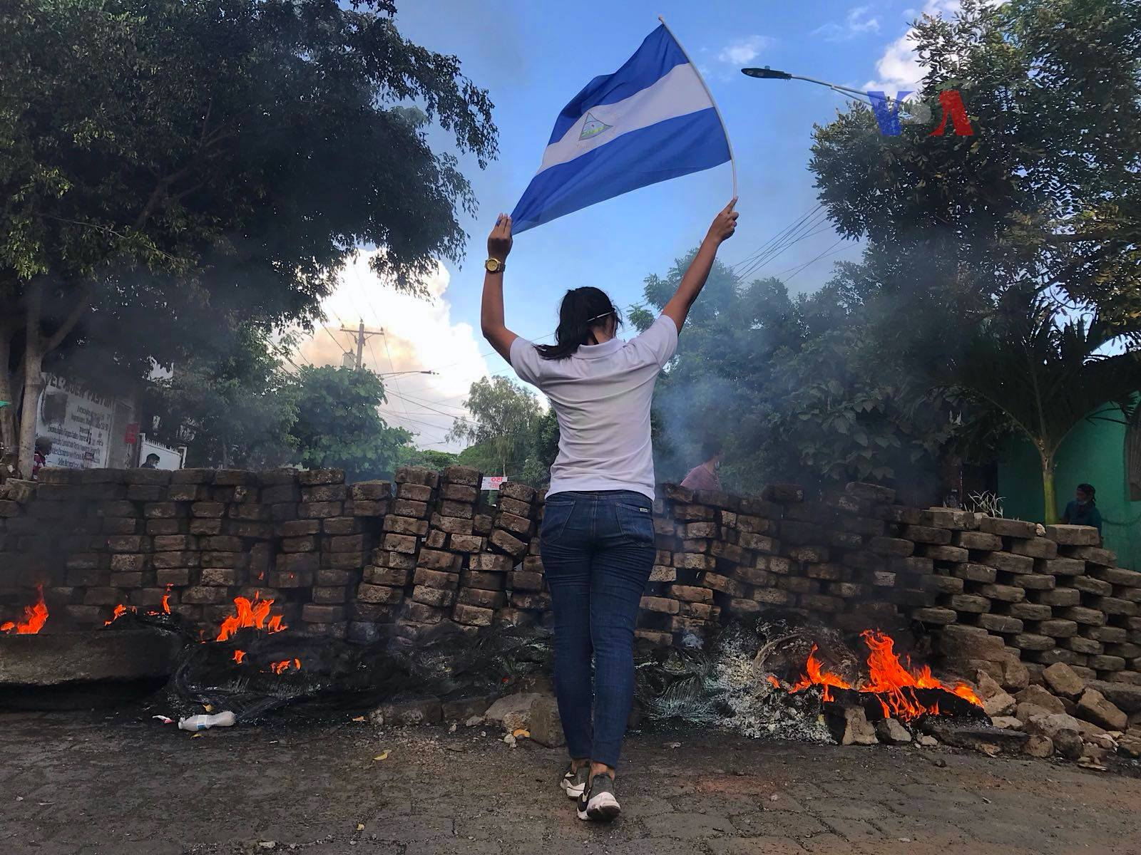 A woman stands near a burning barricade holding the national flag of Nicaragua.